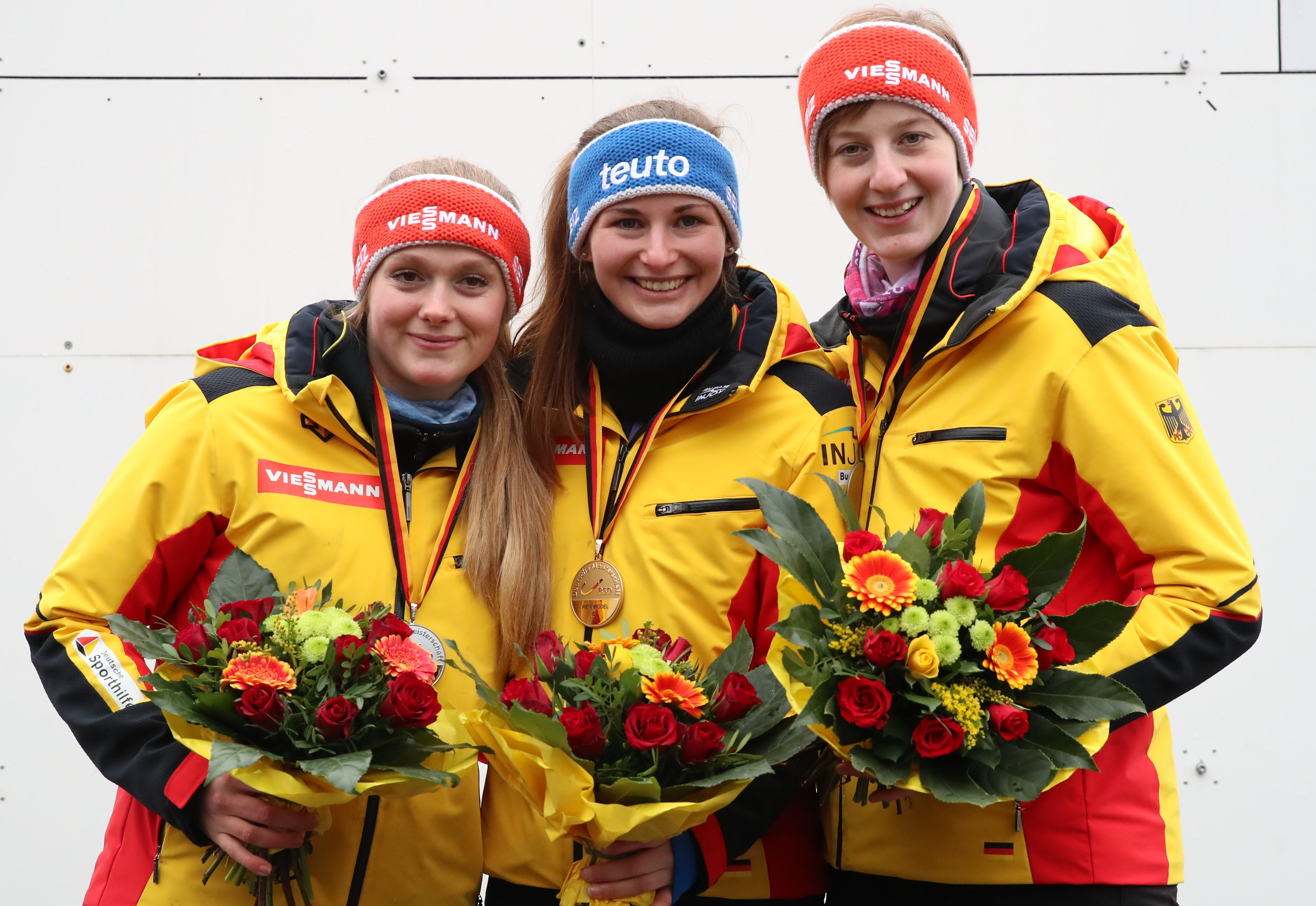 Victory Ceremony at the German Luge Championships 2019 in Oberhof